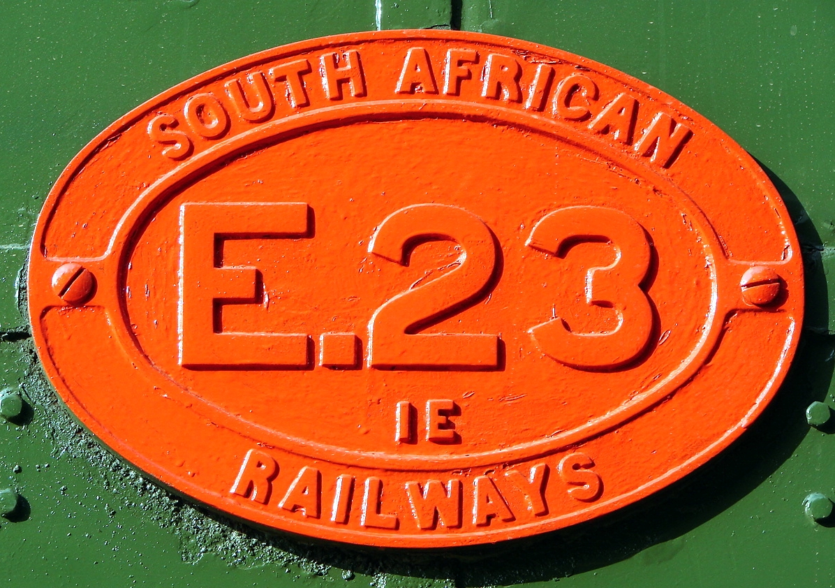 SAR Class 1E Series 1 E23 number plate Builder's number: SLM 2897/1923-24 Location: Nigel, Gauteng